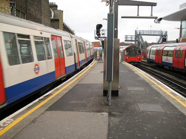 Finchley Road tube station Northbound Metropolitan Line (to the left bound for Uxbridge) and Jubilee Line (to the right bound for Stanmore) trains leave Finchley Road tube station, while a southbound Jubilee Line train for Stratford awaits departure on the far right. I write northbound in general terms because the trains are actually heading westwards here and by the time they get around the bend they are briefly heading more south than north...! The photograph illustrates the difference in size between the rolling stock of the two lines.